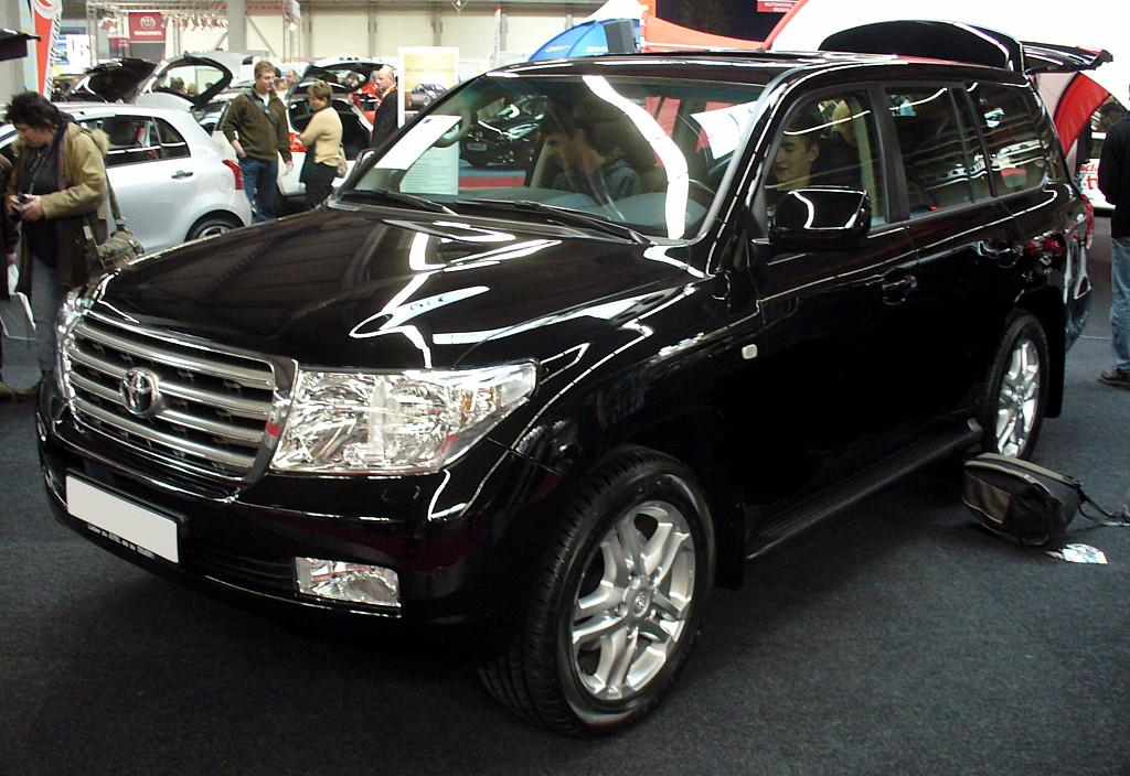 Toyota Land Cruiser V8